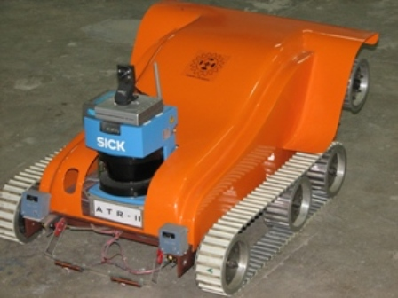 CMERI Developed ATR-II